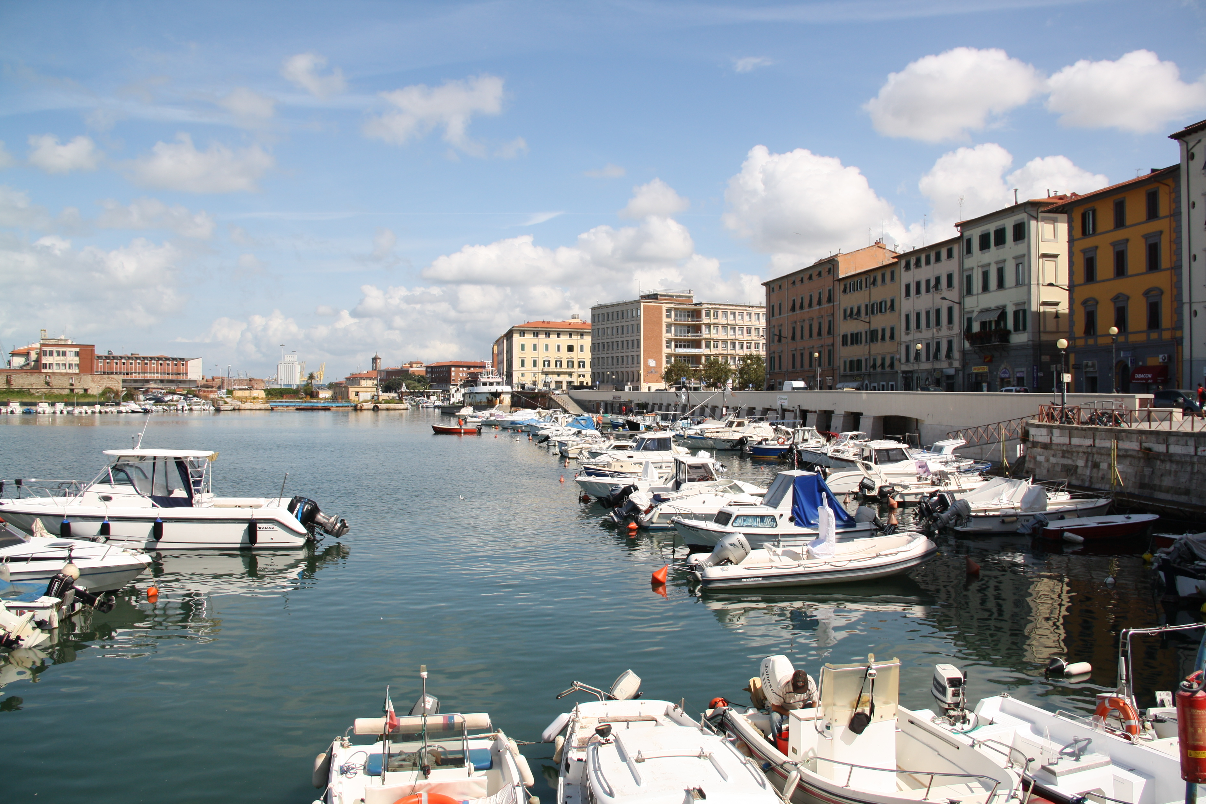 Italy, Livorno, Port of Livorno. The Nuova Darsena of Porto Mediceo.